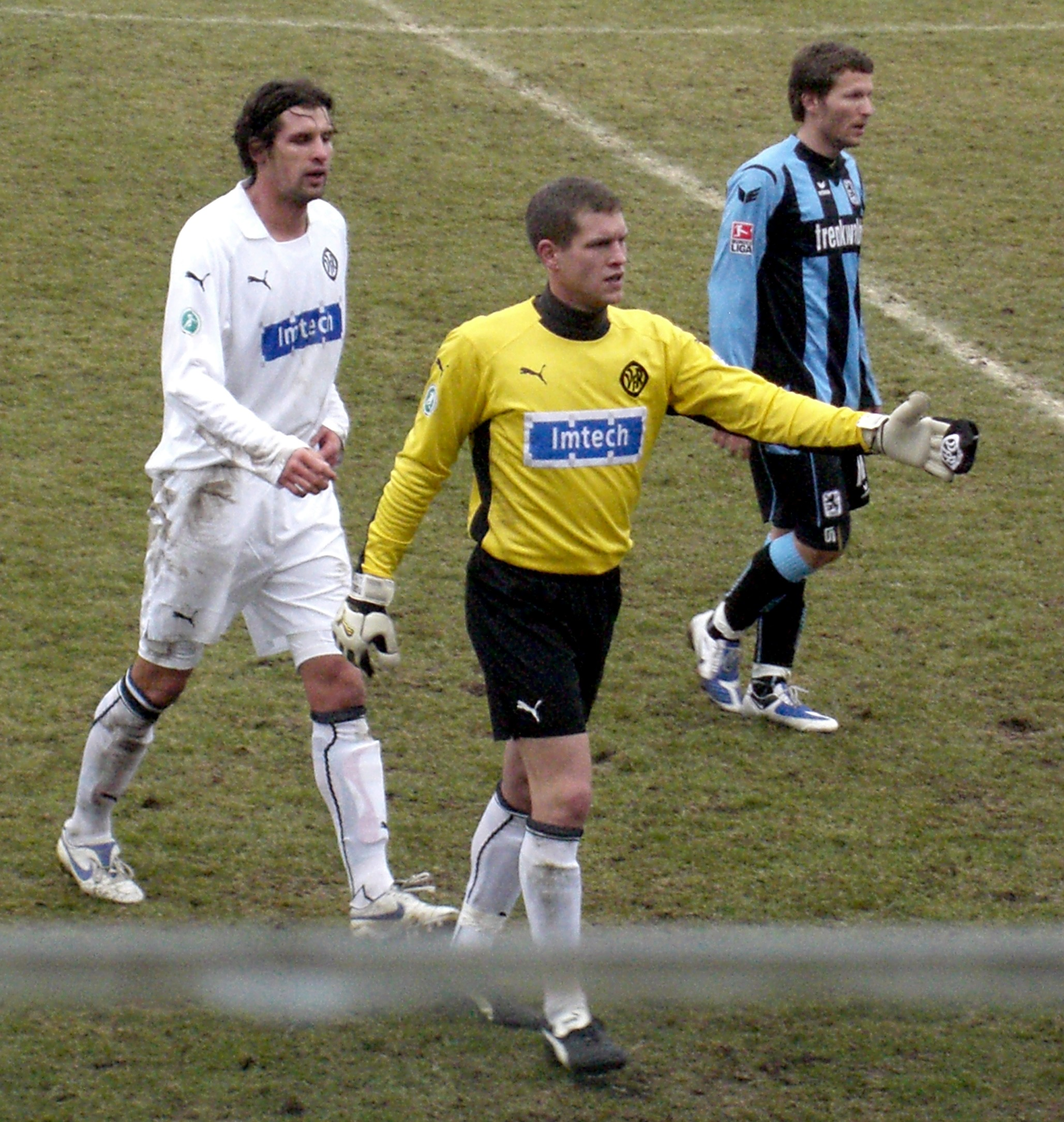 German footballers Vitus Nagorny (left; VfR Aalen), Tobias Linse (VfR Aalen) and Benjamin Lauth (right; TSV 1860 Munich)